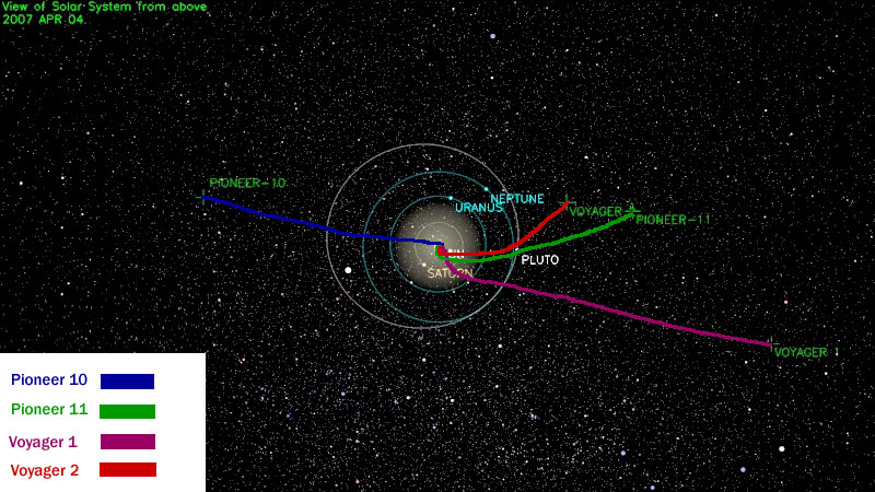 Map showing location and trajectories of the Pioneer 10, Pioneer 11, Voyager 1 and Voyager 2 spacecraft, as of April 4, 2007. Produced with Adobe Photoshop Elements. 7/2/07.